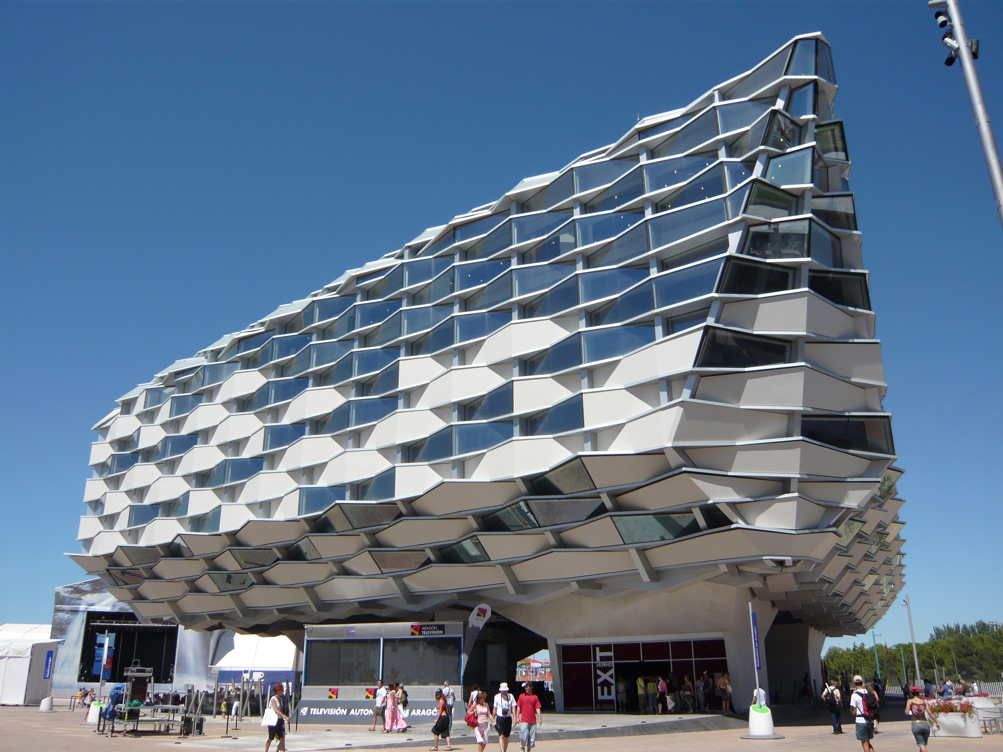 Aragonese Pavilion of the International Exposition of Zaragoza 2008